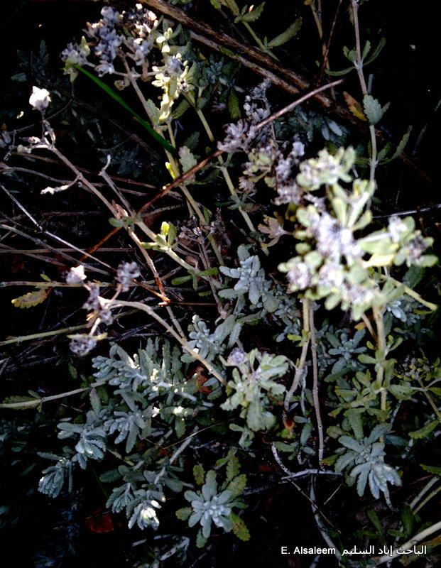 نباتات برّية سورية تؤكل